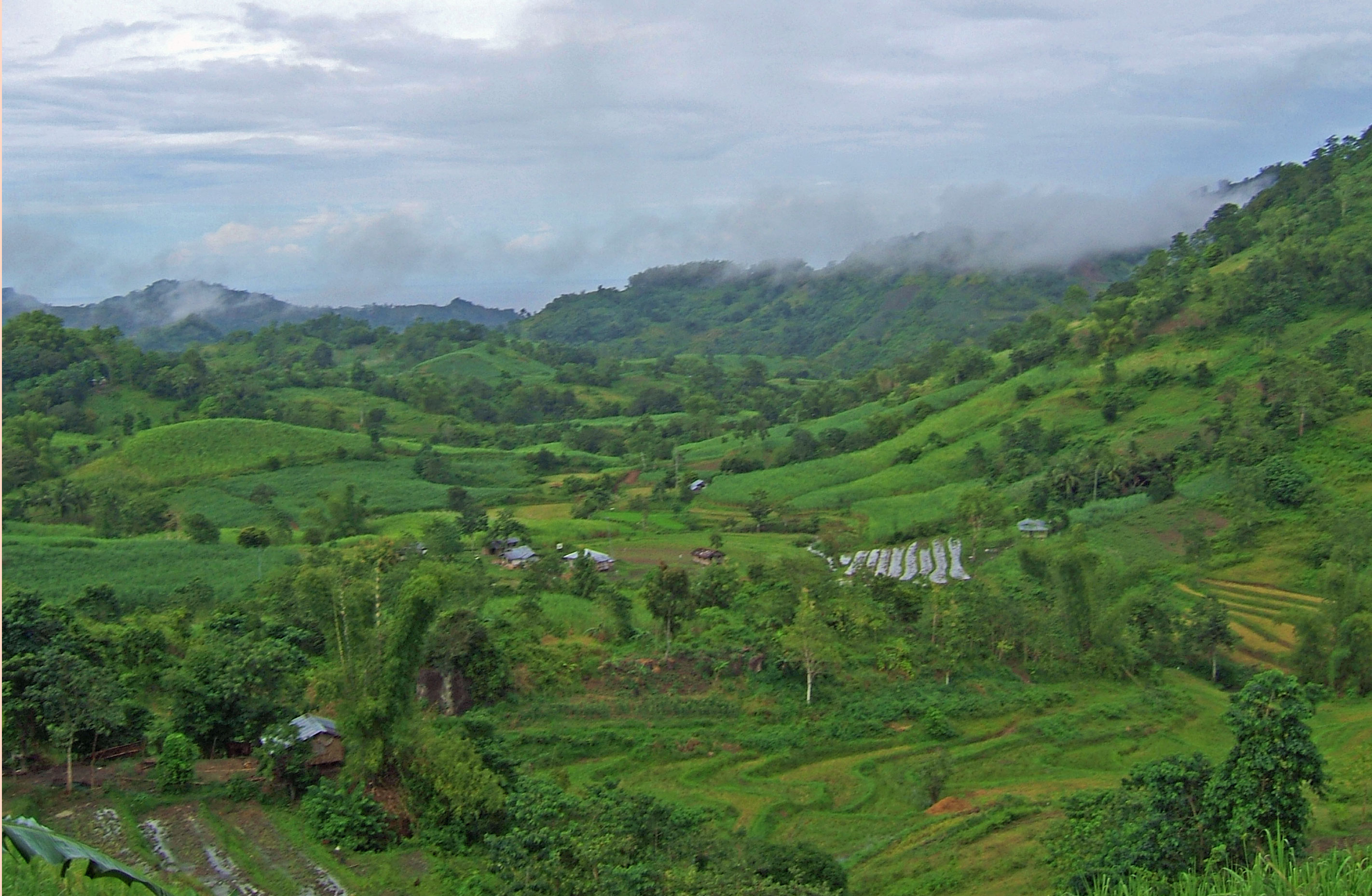 On the road to Candoni, Negros Occidental, Philippines